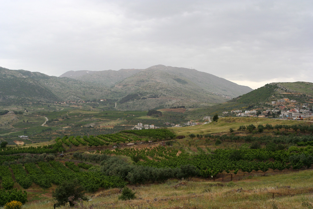 Mt. Hermon Photo by beivushtang